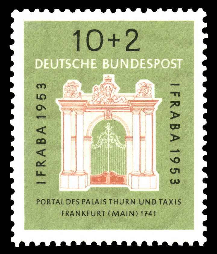 Stamp 1953, international stamp exhibition IFRABA, Frankfurt am Main Graphics by Walter Brudi Ausgabepreis: 10+2 Pfennig First Day of Issue / Erstausgabetag: 29. Juli 1953 Michel-Katalog-Nr: 171